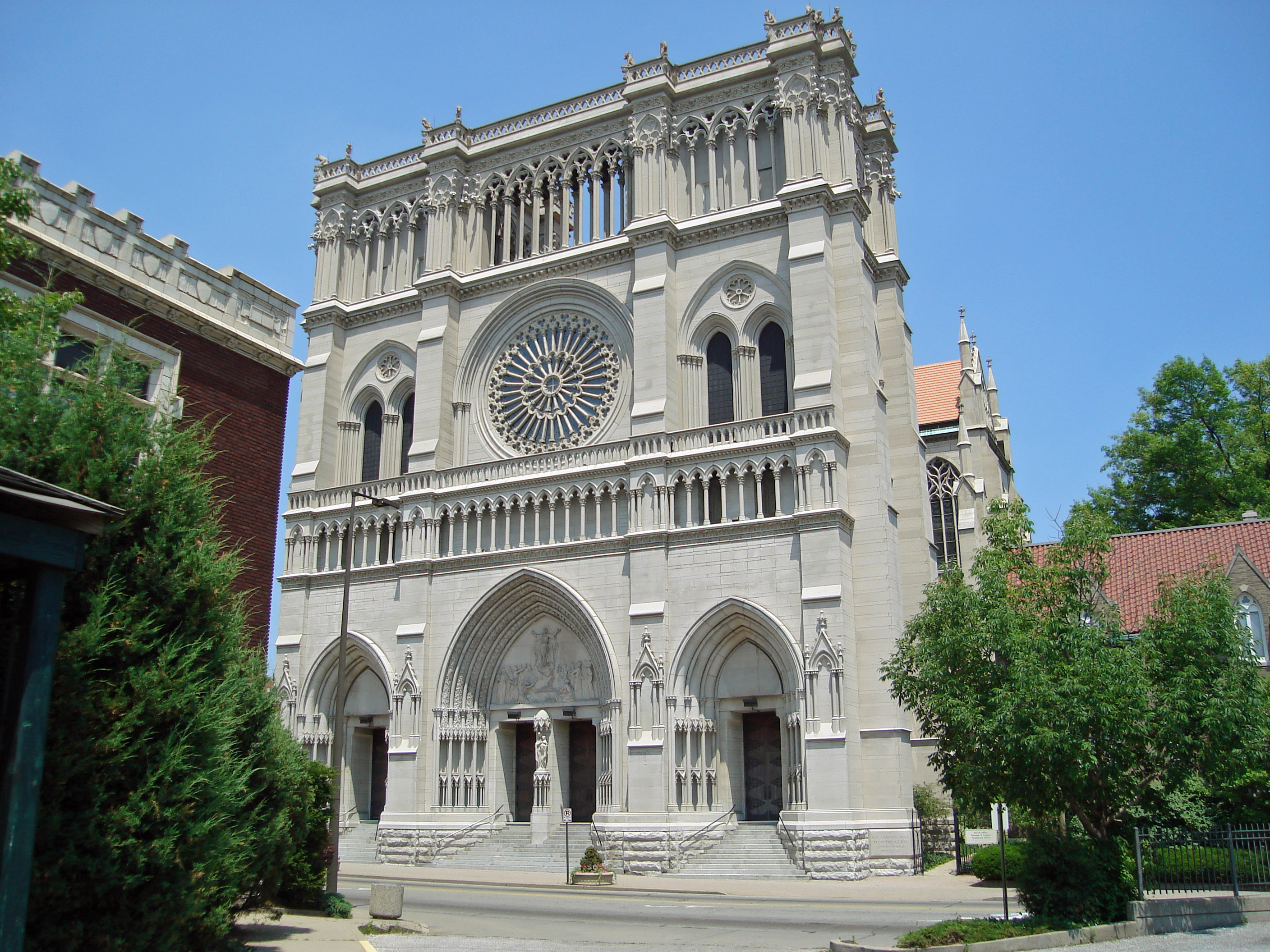 St. Mary's Cathedral Basilica of the Assumption, Covington